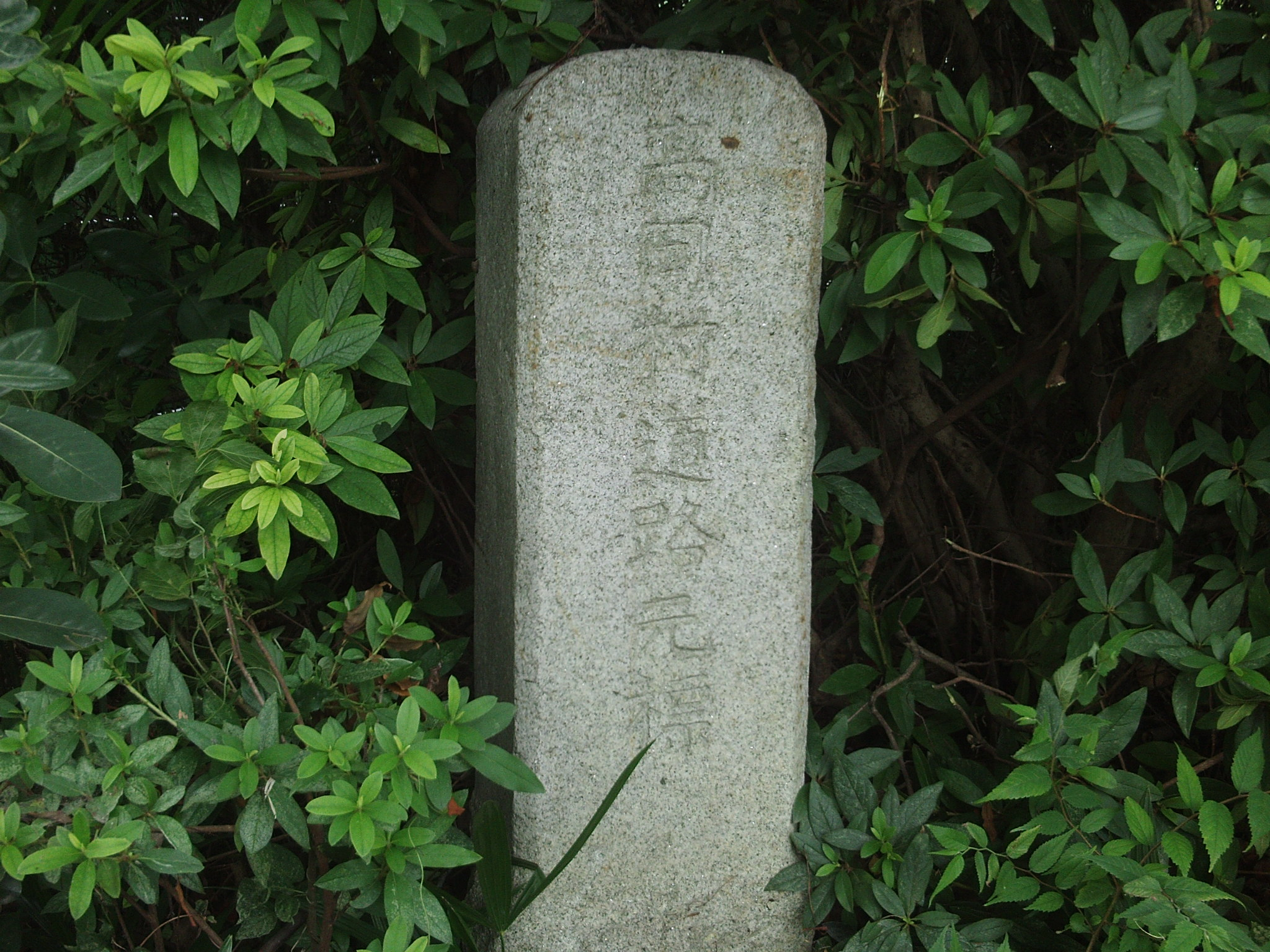 Kilometre zero of Takaoka village. (Takaoka village, Hekikai-gun, Aichi.)